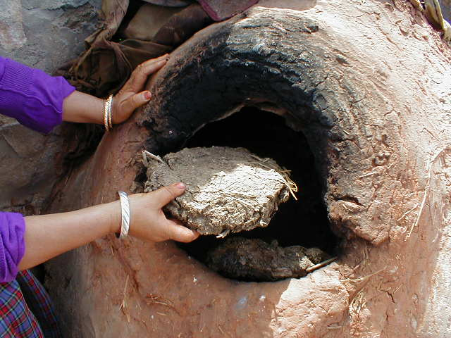 Dry cattle dung used as fuel in a traditional ovenلمغربية: لوڭيدة مخشية في لفرّان